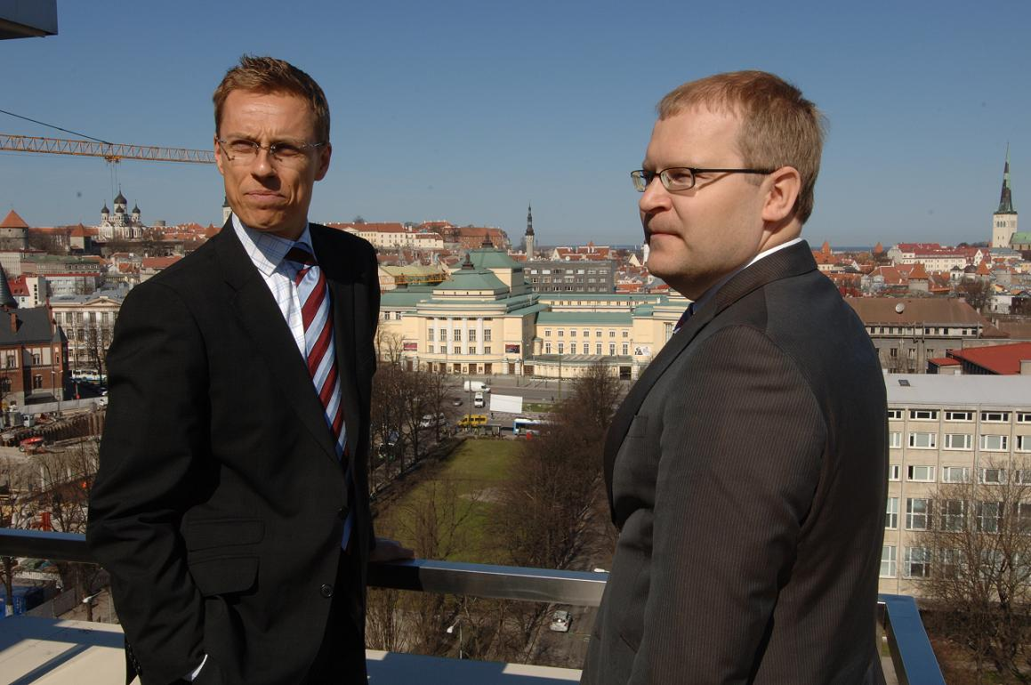 Alexander Stubb and Urmas Paet in Estonian Foreign Ministry.